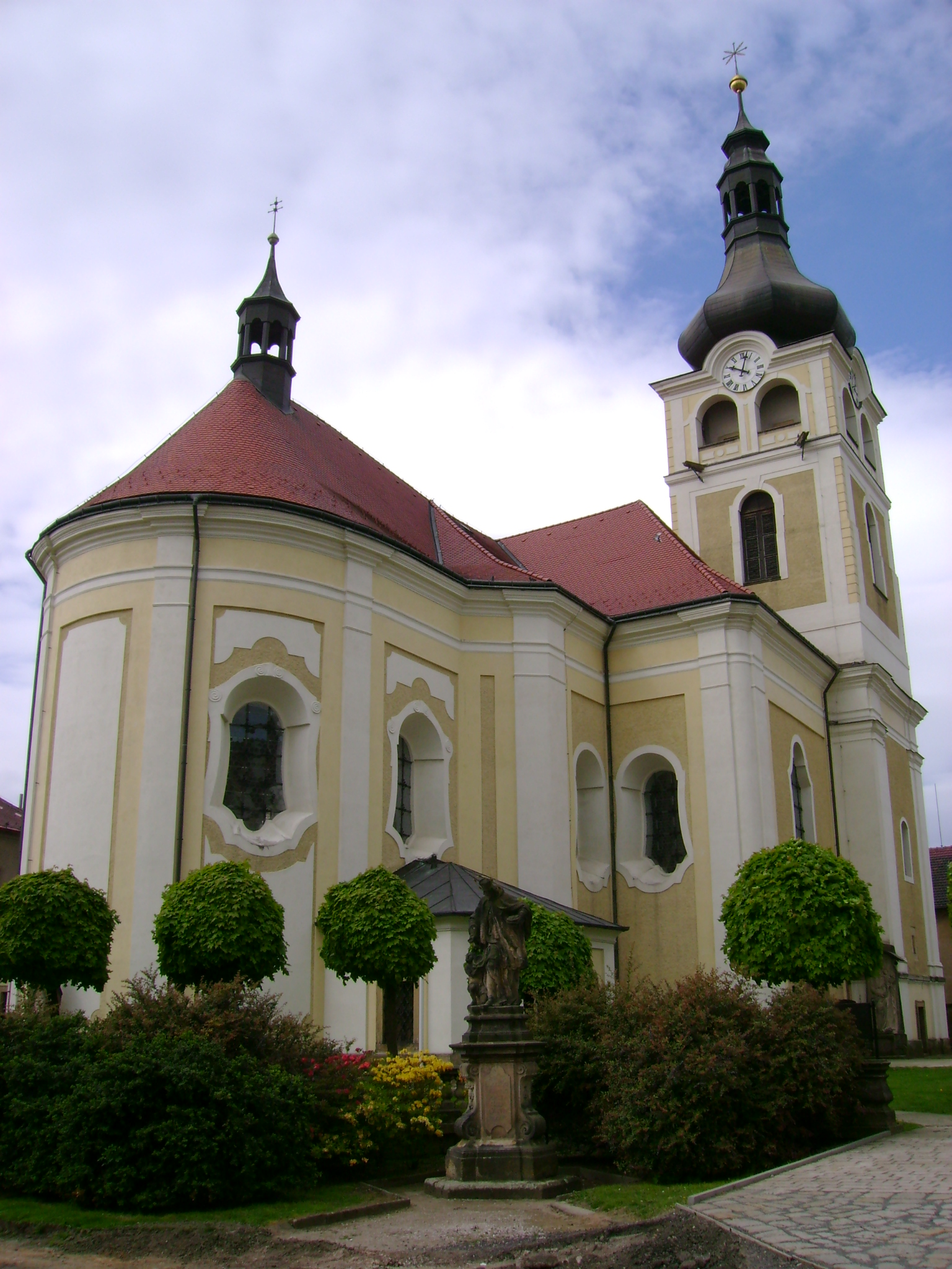 Church of the Nativity of the Virgin Mary in Hořice, Czech Republic.